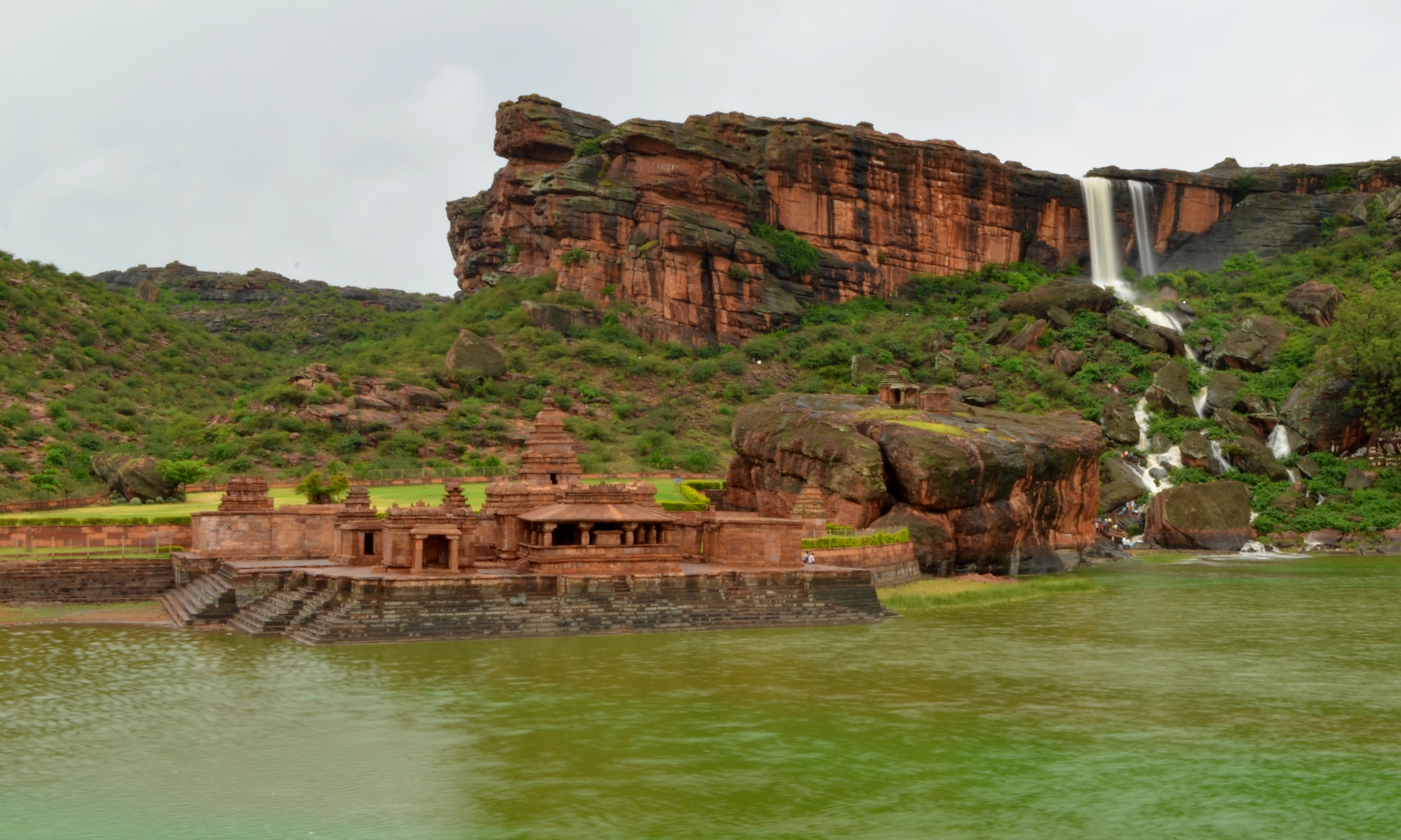 The water fall beside the temple stays for few hours after rain.